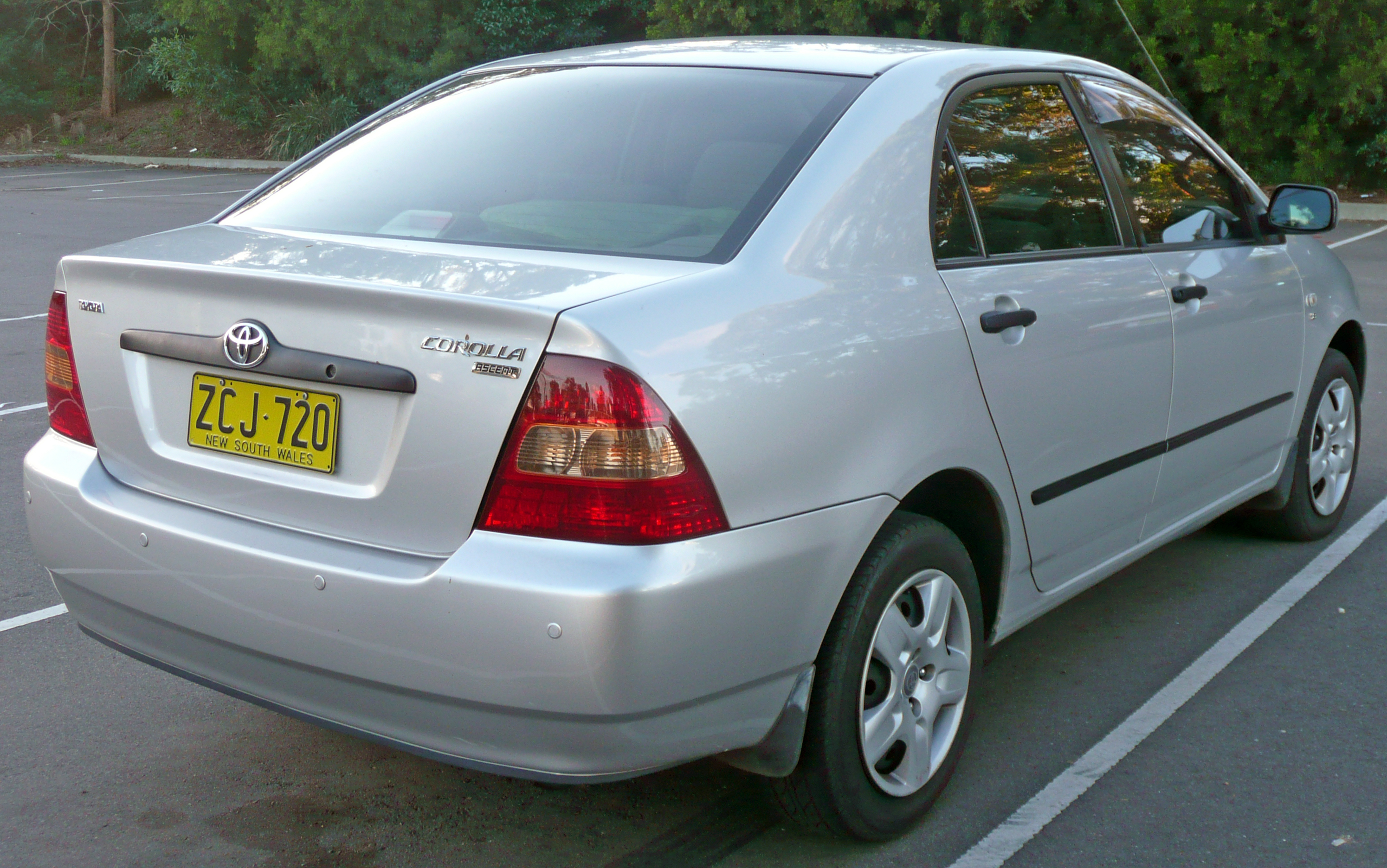 2003–2004 Toyota Corolla (ZZE122R) Ascent sedan. Photographed in Kirrawee, New South Wales, Australia.